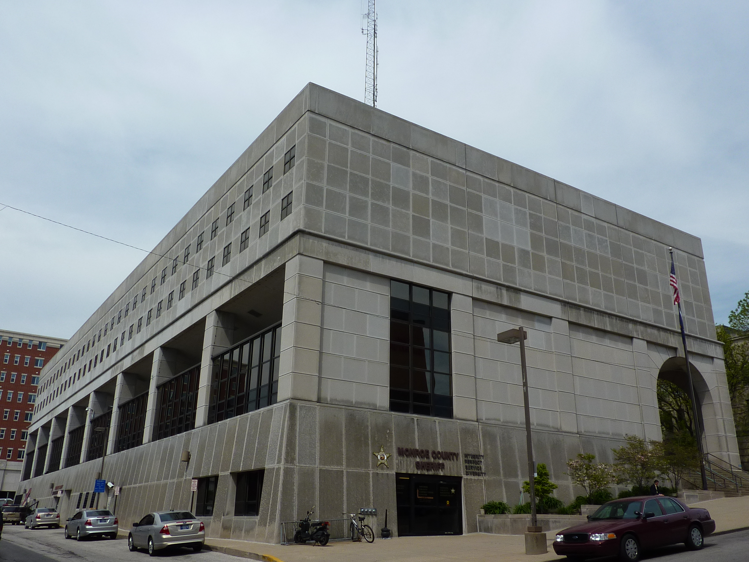 Monroe County Sheriff's Department, jail, and courthouse in Bloomington, Indiana. NW corner of Walnut Ave and 7th St